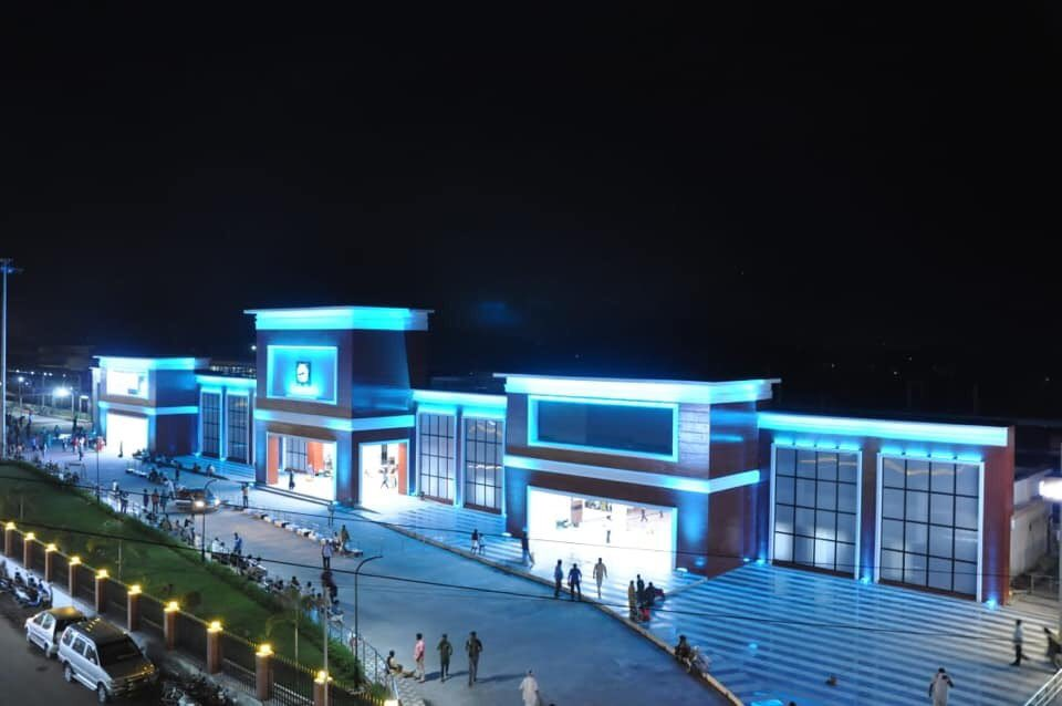 Night view of renovated salem junction with light setup